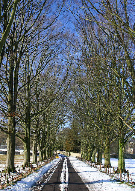 Avenue of trees at Asthall, Oxfordshire, in snow